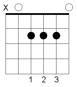 Chord diagram (chord A).